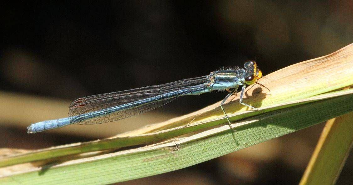 Springwater Sprite Pseudagrion caffrum 2012 11 28 Cedara